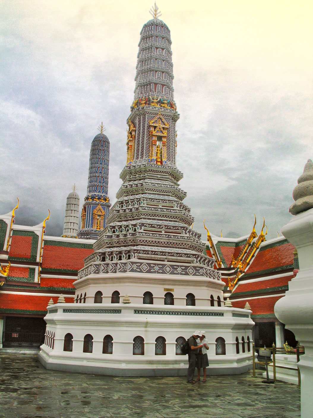 One of eight Prangs, Wat Phra Kaeo, Bangkok, Thailand